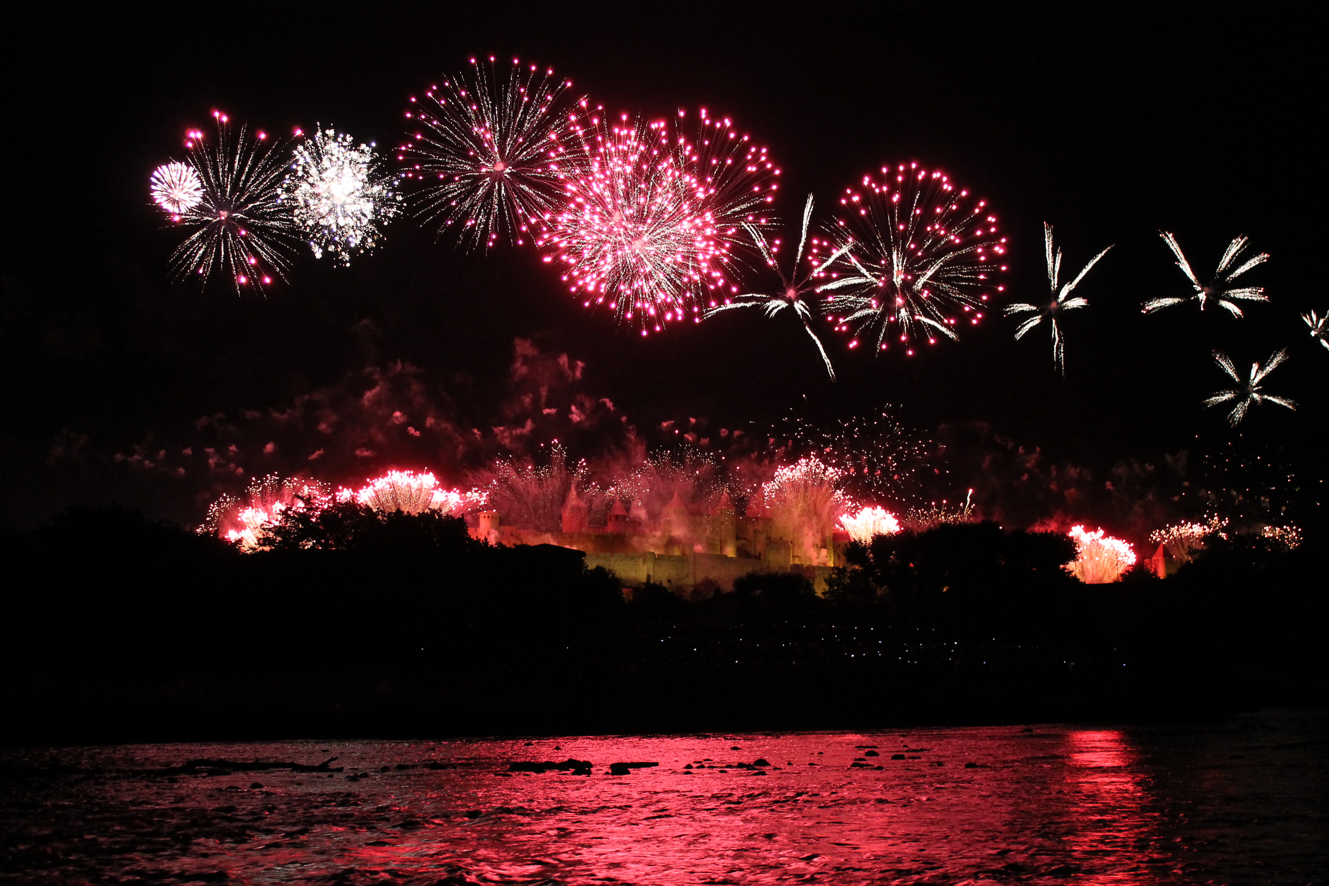 Bastille Day fireworks in Carcassonne, 14th of july 2012.